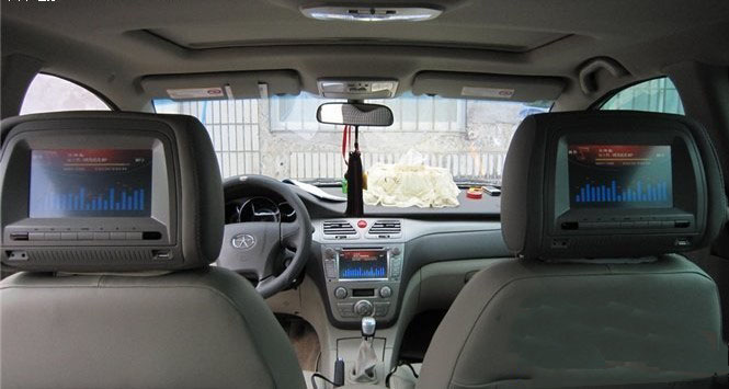 headrest dvd player installed on toyota highlander